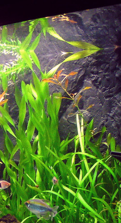 Underwater plants in an aquarium, and their inverted images (top) formed by total internal reflection in the water-air surface. The scene is illuminated from above the water.